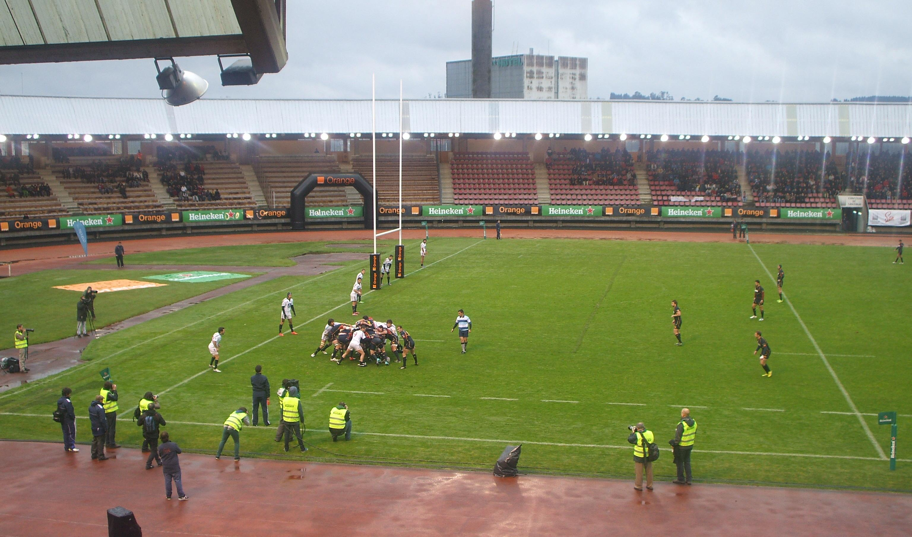 Spain vs Portugal rugby union match in the San Lázaro Stadium (Santiago de Compostela).